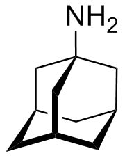 Amantadine